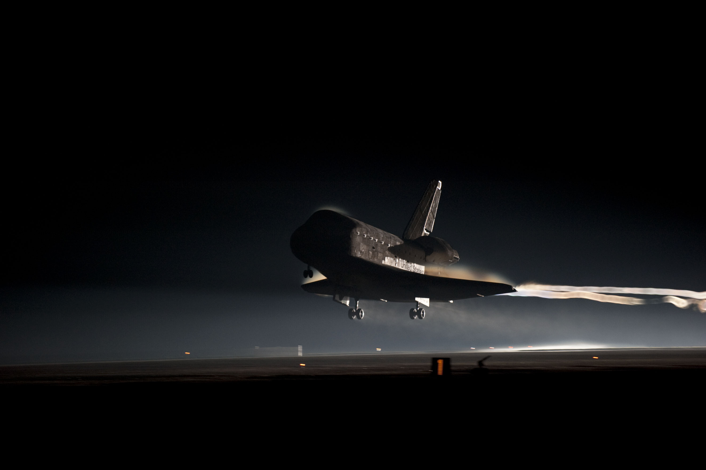 CAPE CANAVERAL, Fla. – Ribbons of steam and smoke trail space shuttle Atlantis as it nears touch down on the Shuttle Landing Facility's Runway 15 at NASA's Kennedy Space Center in Florida for the final time. Securing the space shuttle fleet's place in history, Atlantis marked the 26th nighttime landing of NASA's Space Shuttle Program and the 78th landing at Kennedy. Main gear touchdown was at 5:57:00 a.m. EDT, followed by nose gear touchdown at 5:57:20 a.m., and wheelstop at 5:57:54 a.m. On board are STS-135 Commander Chris Ferguson, Pilot Doug Hurley, and Mission Specialists Sandra Magnus and Rex Walheim. On the 37th shuttle mission to the International Space Station, STS-135 delivered more than 9,400 pounds of spare parts, equipment and supplies in the Raffaello multi-purpose logistics module that will sustain station operations for the next year. STS-135 was the 33rd and final flight for Atlantis, which has spent 307 days in space, orbited Earth 4,848 times and traveled 125,935,769 miles. For more information visit